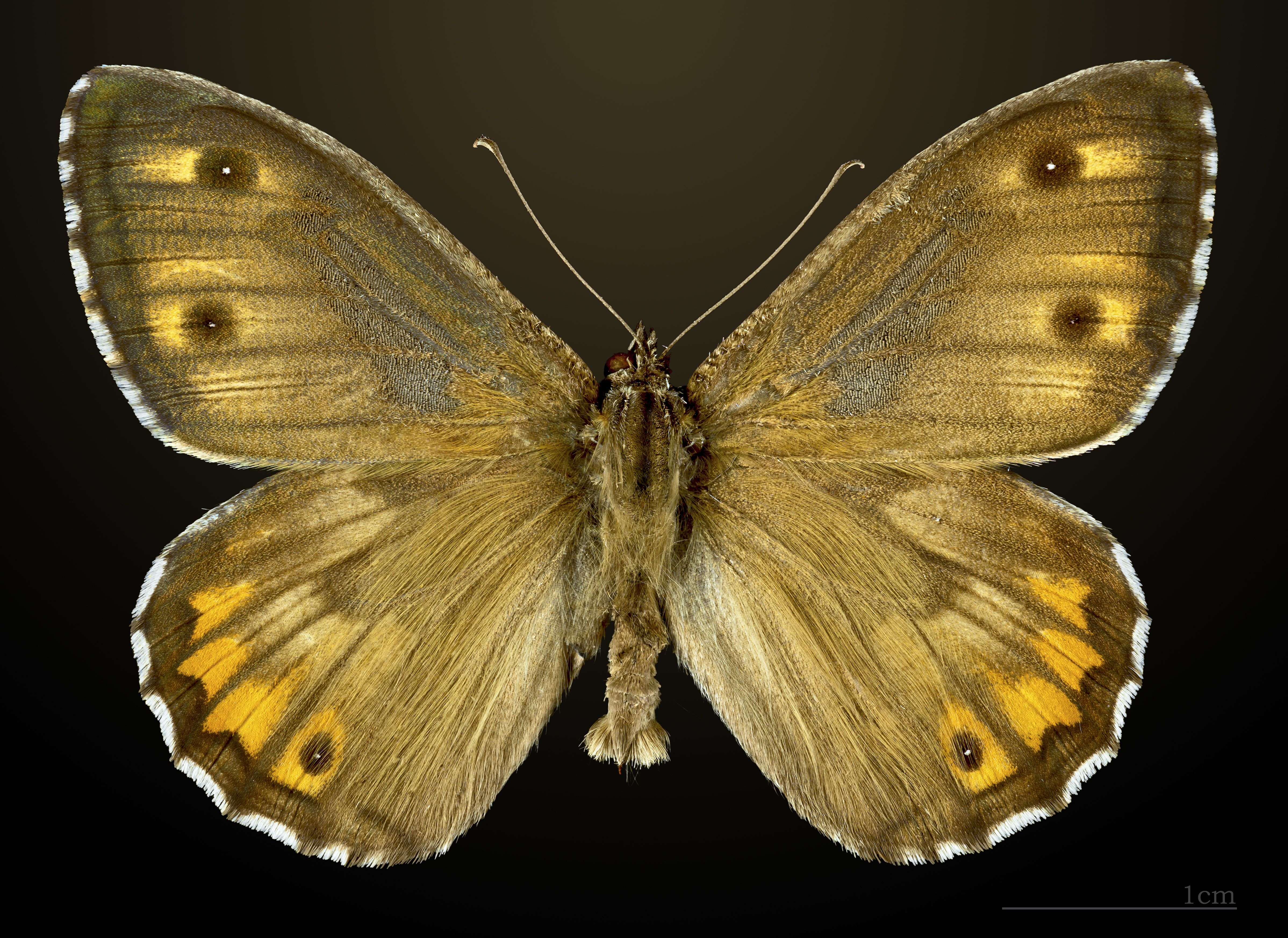 Grayling ♂ - Dorsal side Locality: Villegailhenc, Aude, France